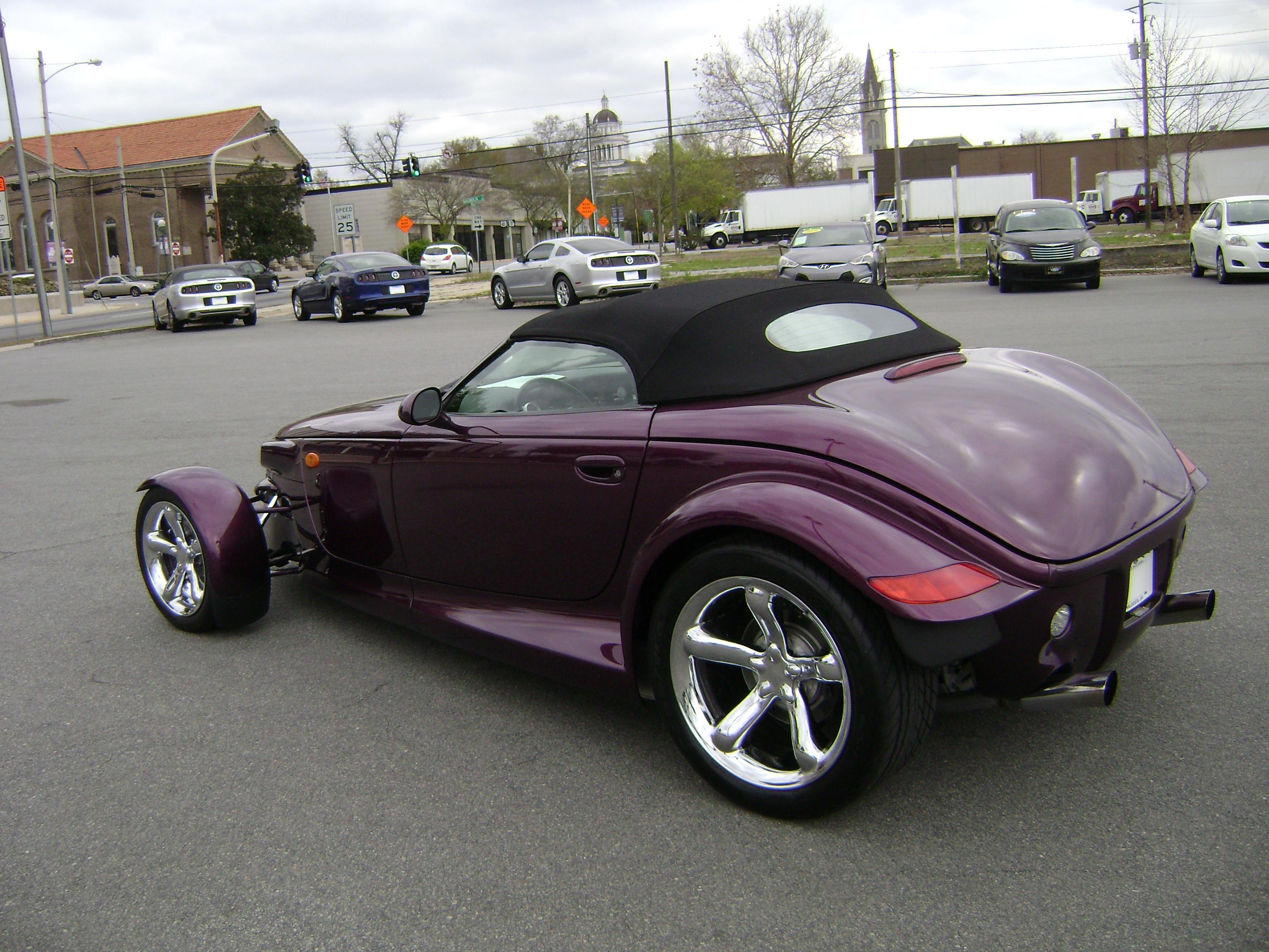 Purple Plymouth Prowler 97 (SW corner)